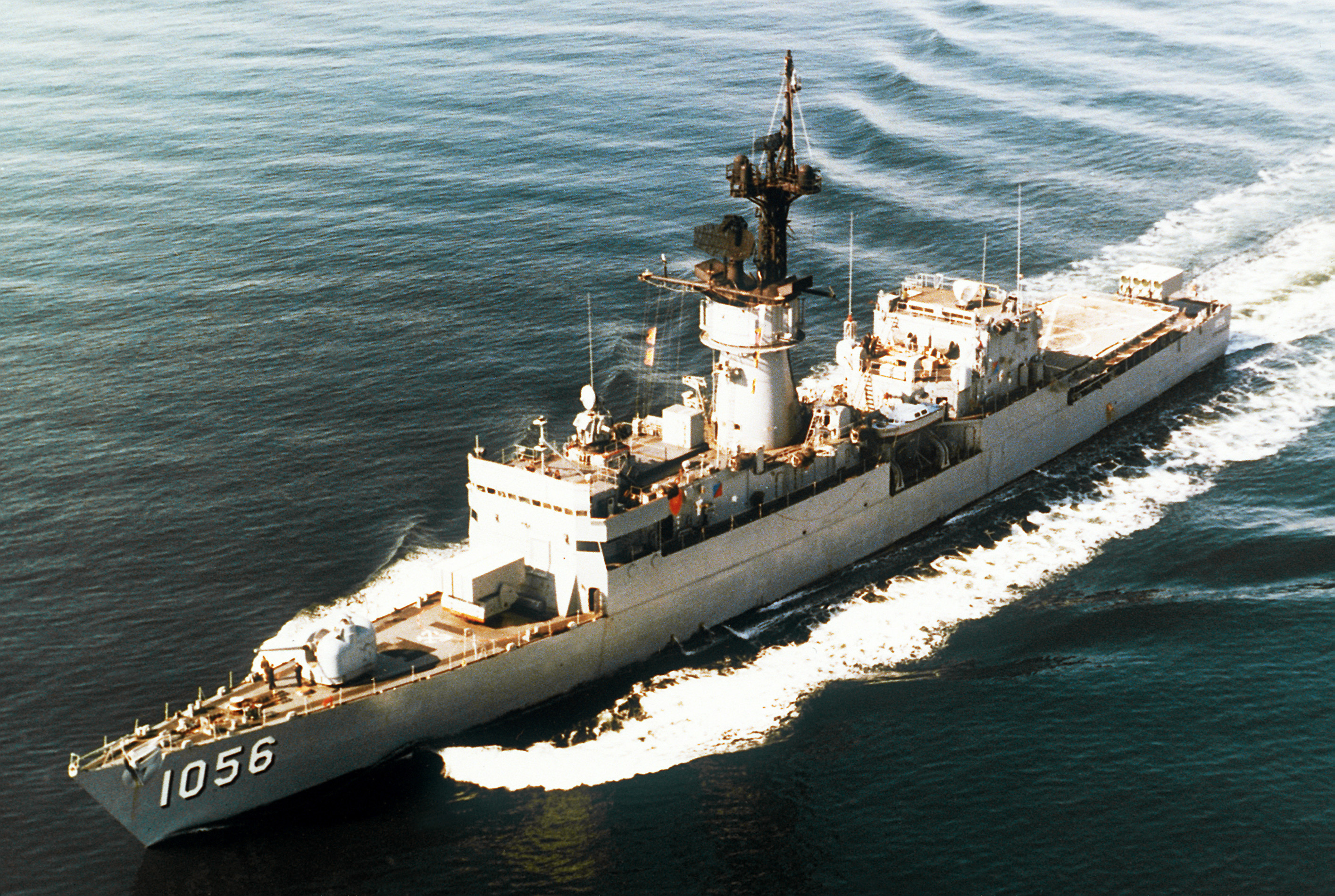 The U.S. Navy frigate USS Connole (FF-1056) underway in the Atlantic Ocean on 22 September 1984.